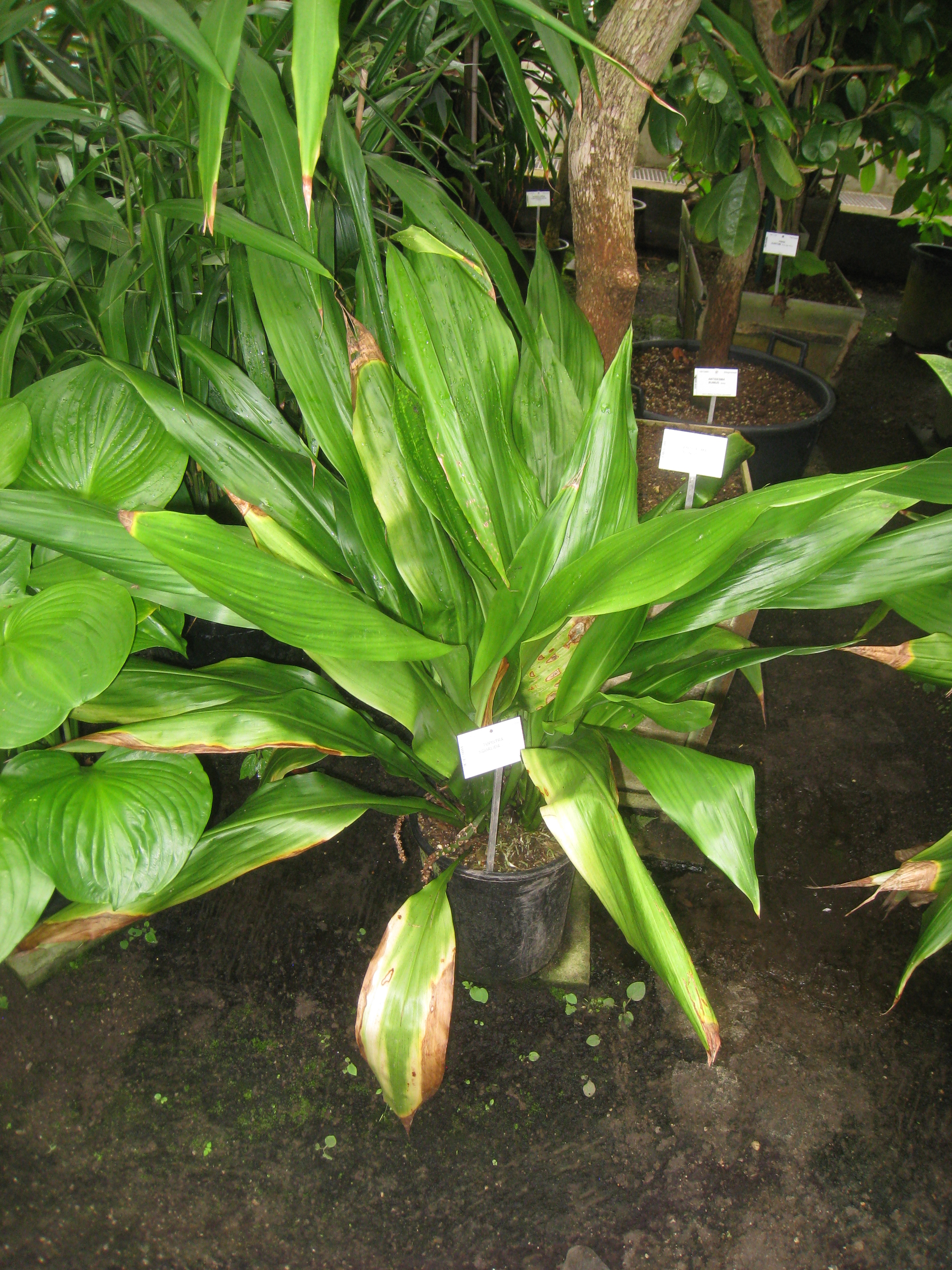 Tupistra squalida specimen in the National Botanic Garden of Belgium, Meise, just north of Brussels, Belgium.